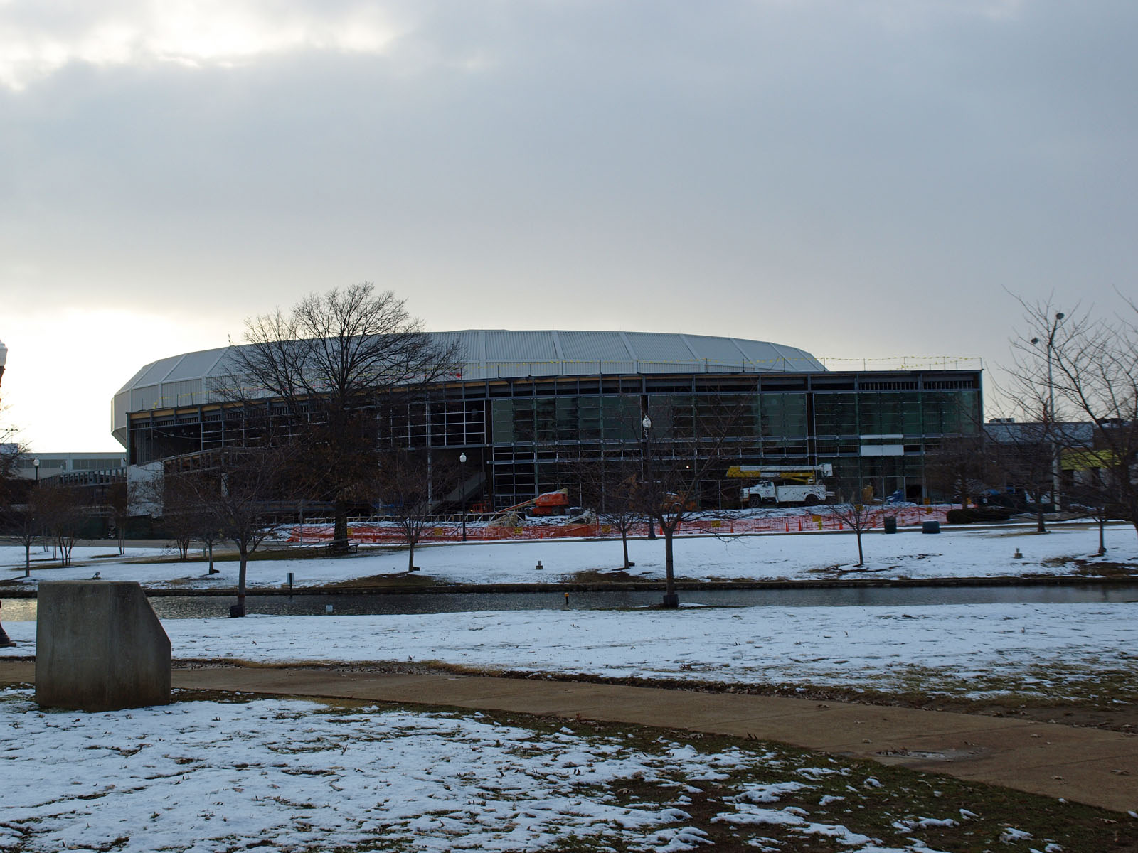 The Von Braun Center Arena in Huntsville, Alabama, during renovations in December 2010.